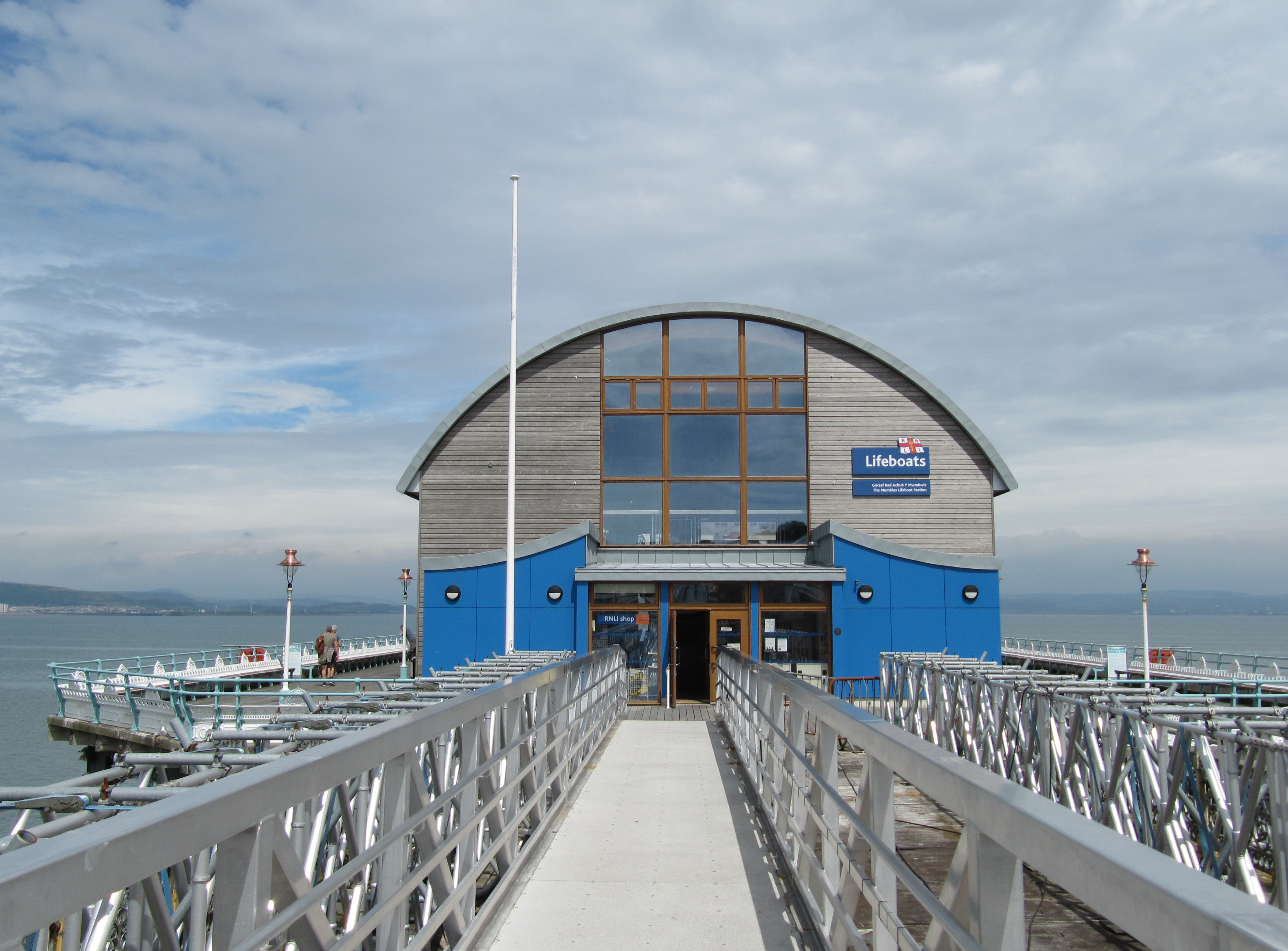 Mumbles Lifeboat Station. The new Mumbles Lifeboat Station, formally opened in March 2014